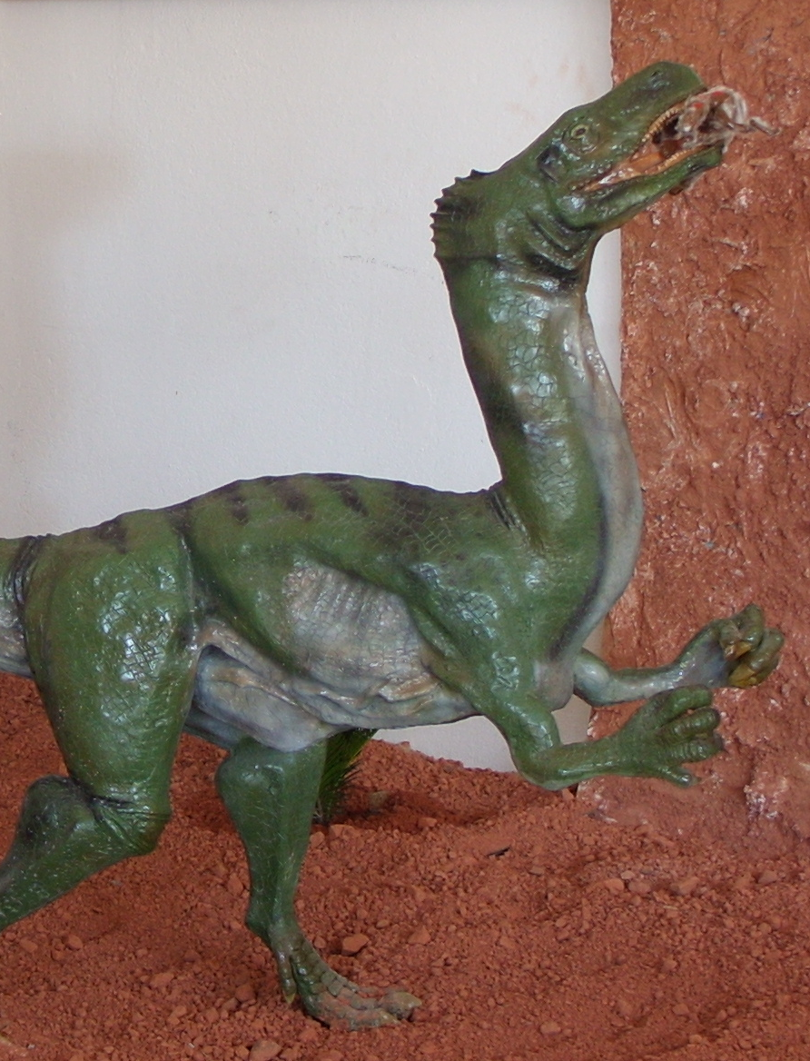 Guaibasaurus model in the Aristides Carlos Rodrigues Museum, in Candelária, State of Rio Grande do Sul, Brazil.